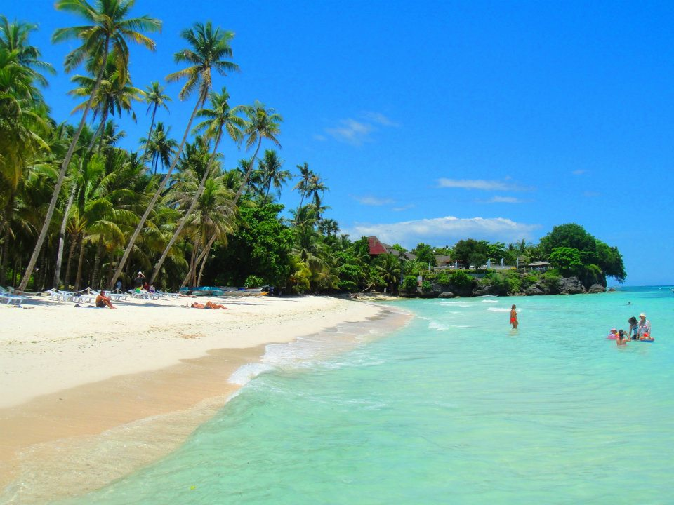 Alona Beach, Bohol